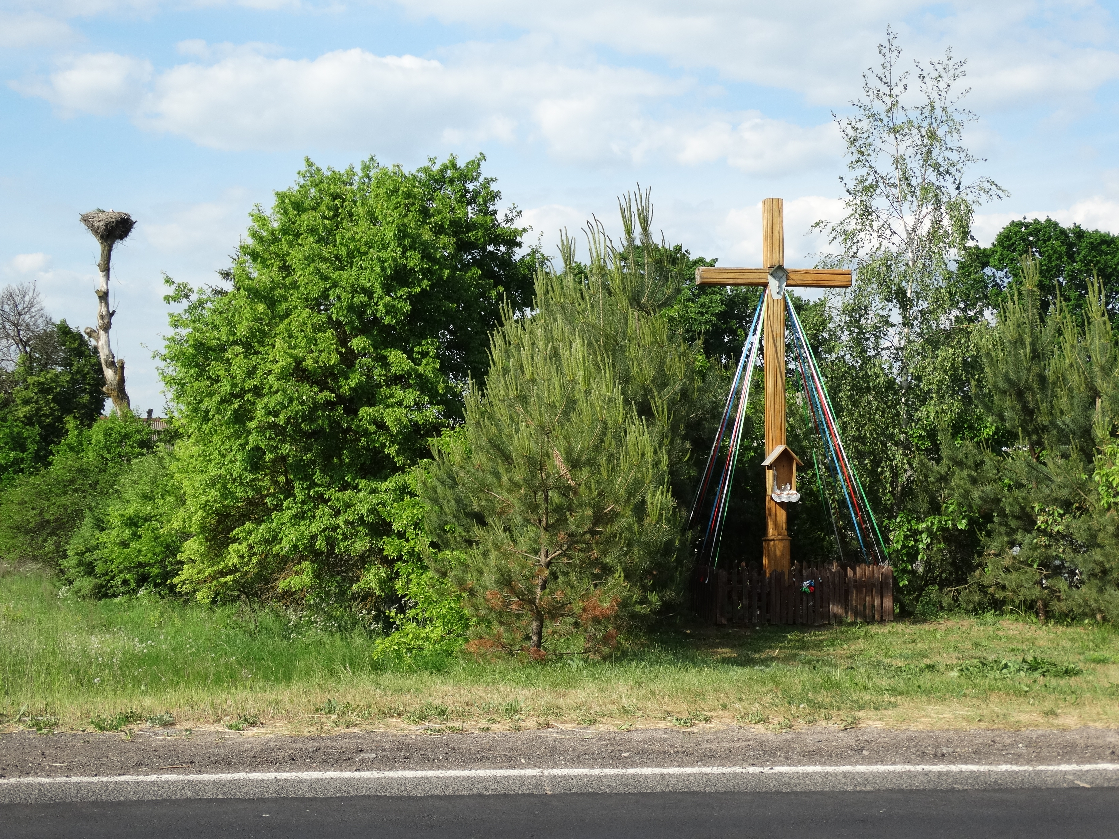 Ažulaukė, Vilnius district, Lithuania